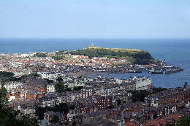 Scarborough from Olivers Mount.